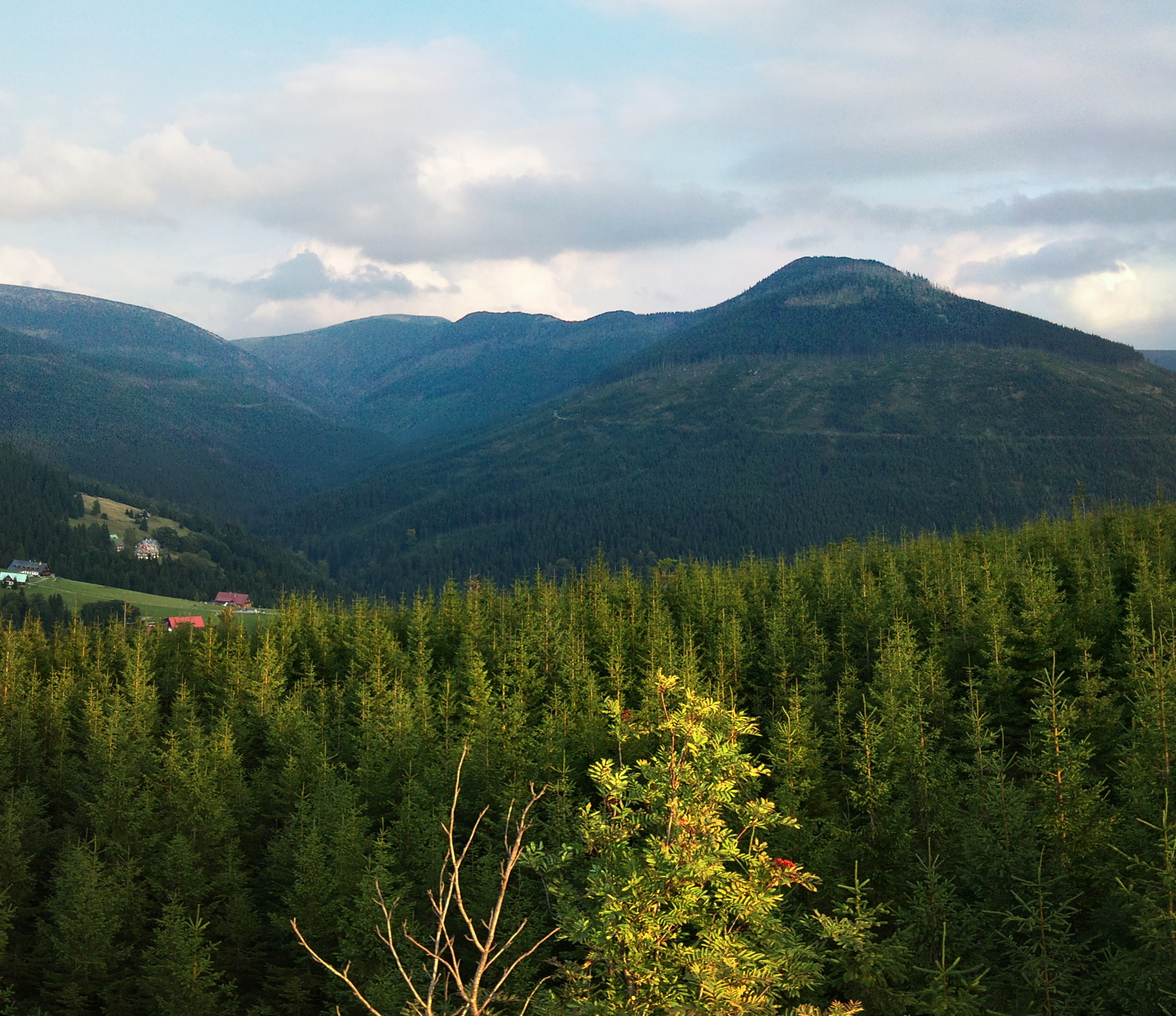 Železný vrch in the Krkonoše Mountains, view from Pevnost.